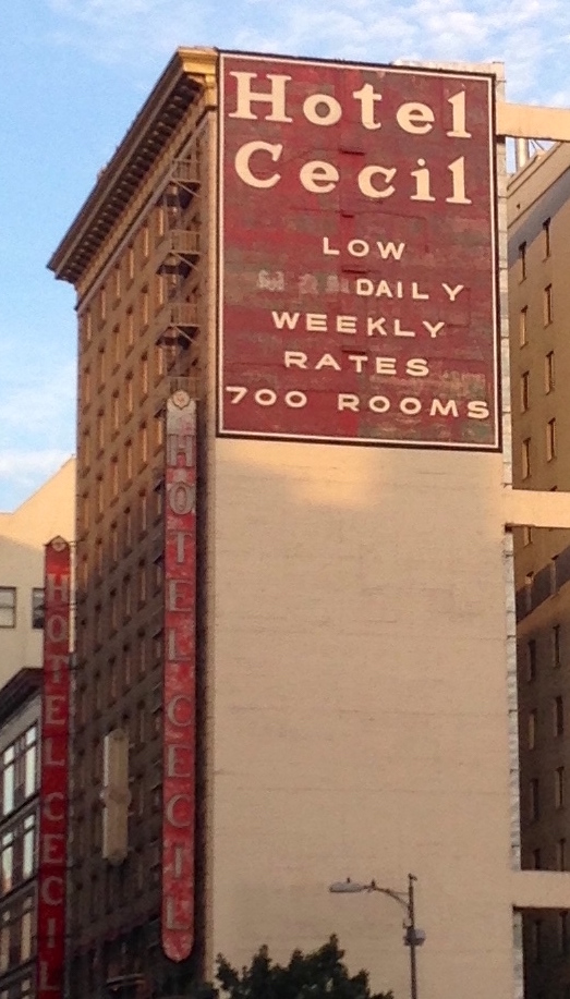 Outside of Cecil Hotel Los Angeles